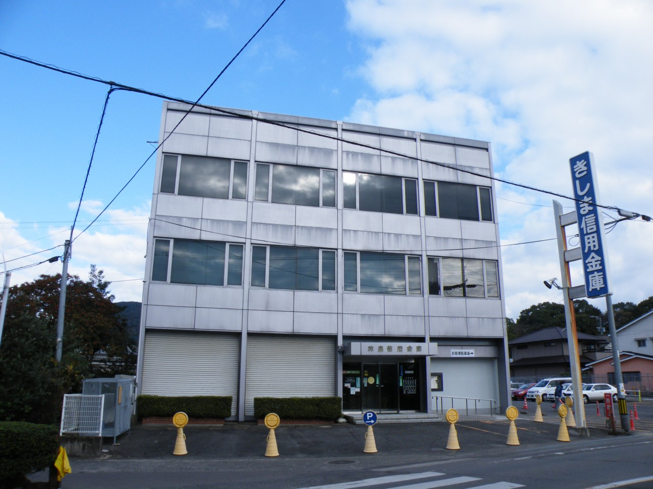 Kishima_Credit_Association_Headoffice(Takeo, Saga)